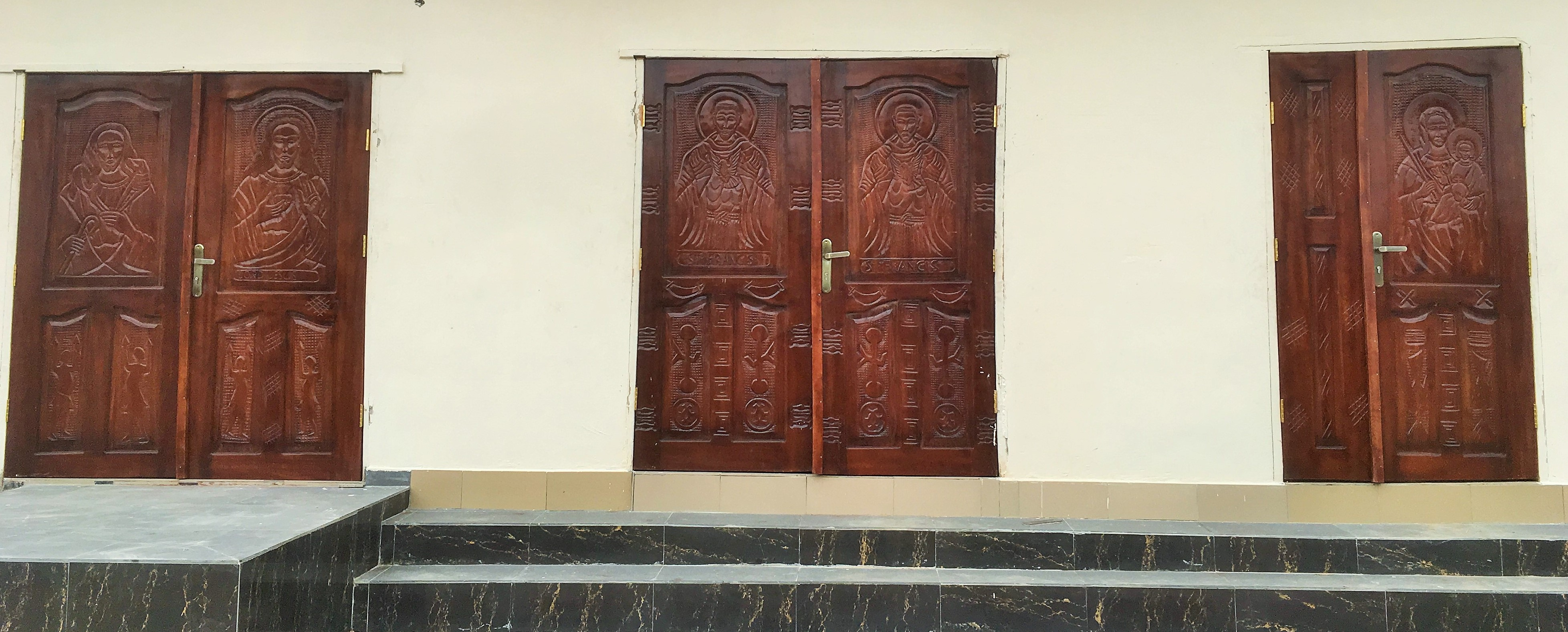 Contemporary Igbo carving: Mahogany doors covered in Nsibidi symbolism and christian iconography found at Saint Francis Specialist Mortuary, Aba, Abia State, Nigeria